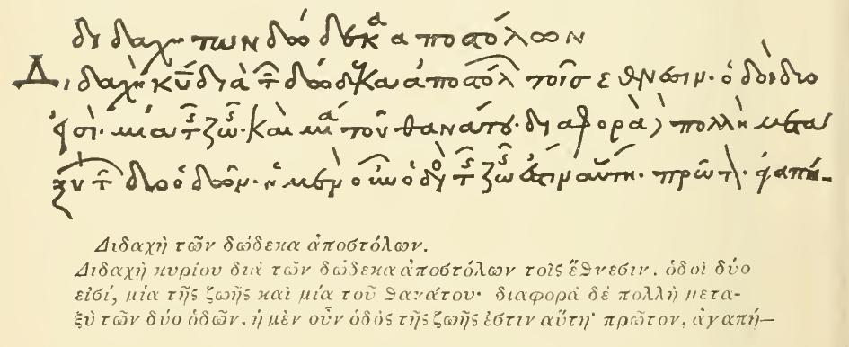 Facsimil de las primeras líneas del H54